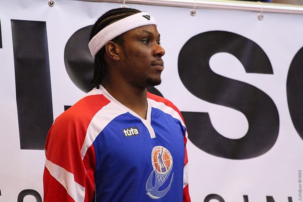 Marcus Fraser playing in Ukrainian all-star game 2011.